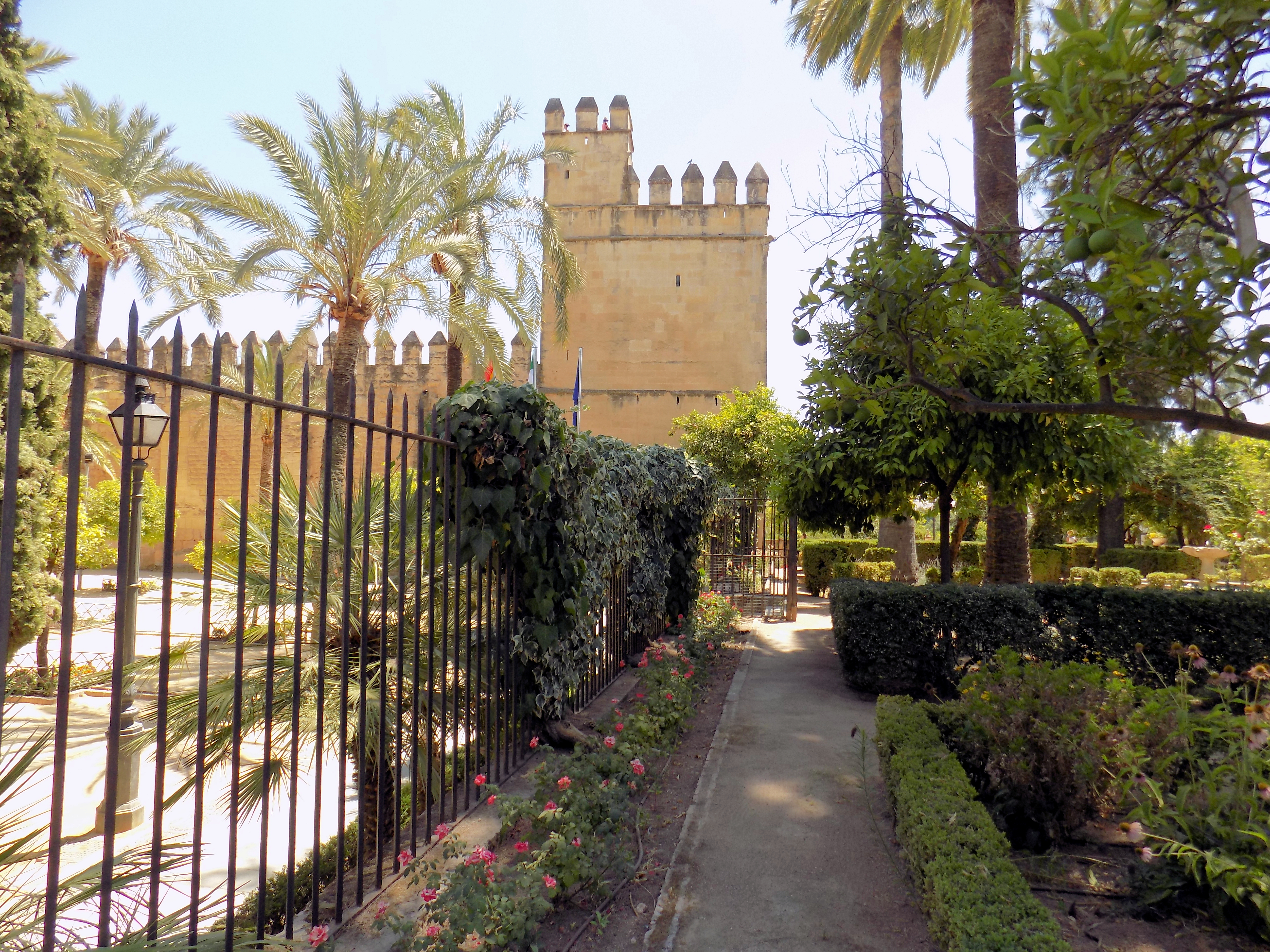 Alcázar de los Reyes Cristianos, Cordoba , Spain